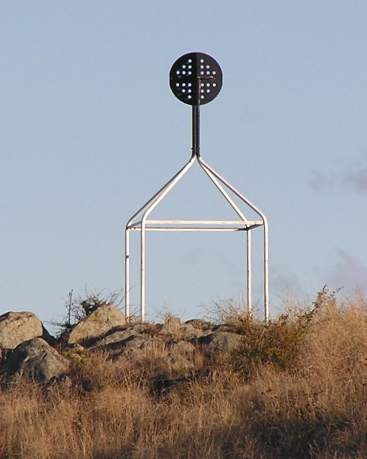 Davidson Trig point on Red Hill, Australian Capital Territory. From ACT Govt info on Survey Control Marks - In the ACT trig stations consist of a ground mark with a white quadripod supporting a black disc above the ground mark. Most of these Trig Stations are part of the ACT Precision Zone: a national geodetic survey and adjustment carried out in the early 1970s. The ACT Precision Zone and its associated marks have been the primary control for all new development in the ACT since the early 1970s. The accuracy of ACT Precision Zone marks is 1 in 250,000. Further information on Geodetic survey in Australia - now and history.